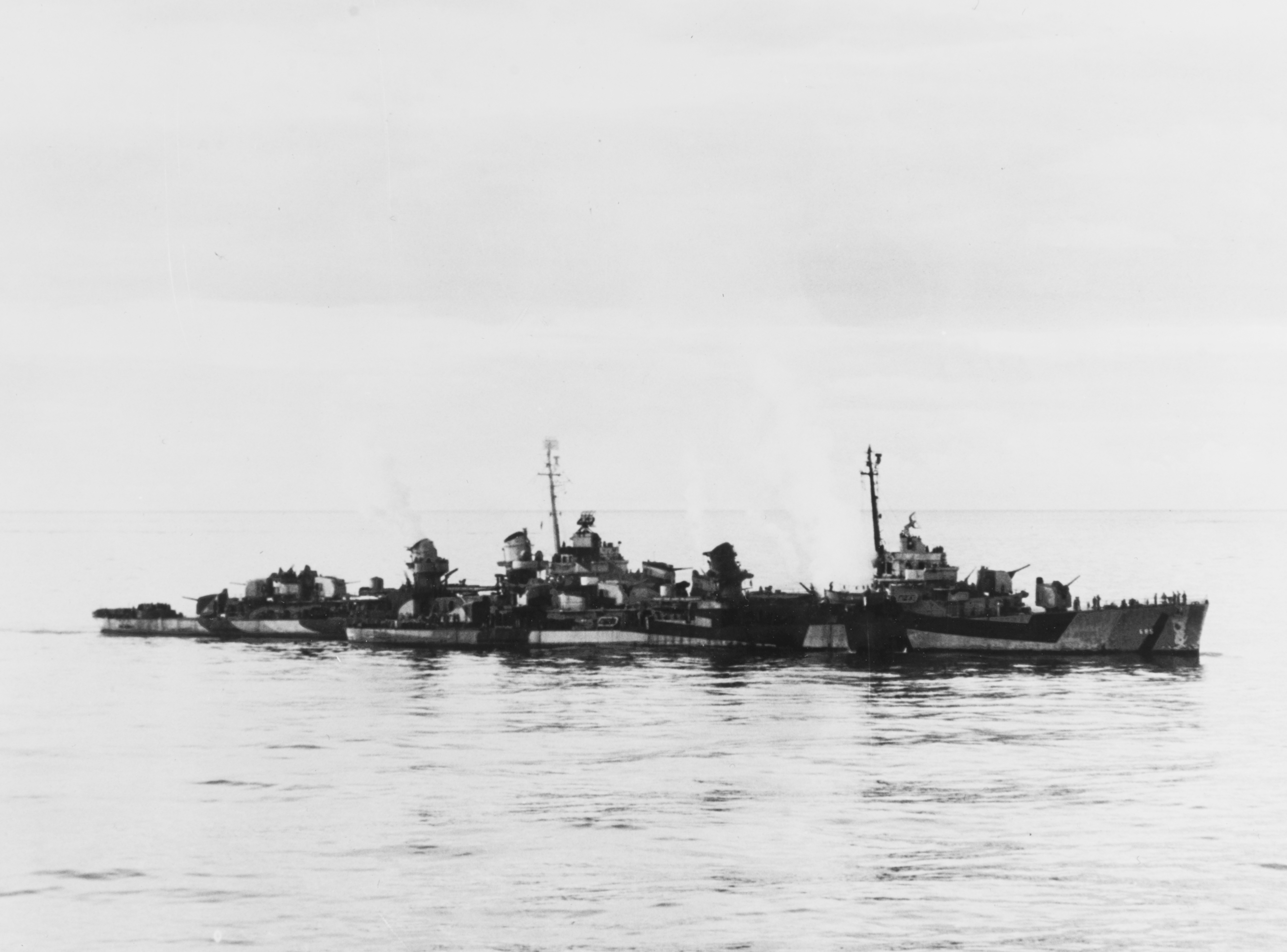 The U.S. Navy destroyer USS Haraden (DD-585) after being hit by a Kamikaze in the Sulu Sea on 13 December 1944, while enroute to the Mindoro invasion. USS Twiggs (DD-591) is alongside rendering assistance. Haraden is painted in Camouflage Measure 31, Design 3D.